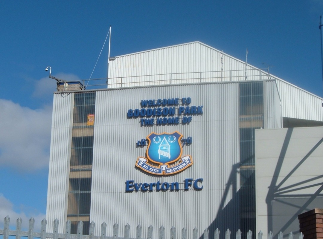 Author : Simon Paul Also shown on in the Goodison Gallery at this URL : Taken by Simon Paul, myself, in the summer of 2003 of Goodison Park, Liverpool